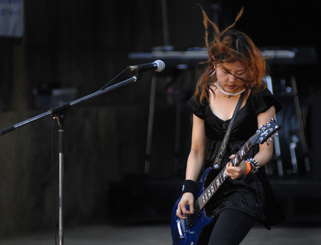 Kanna of the punk-rock band Bleach flies through a guitar solo July 7.